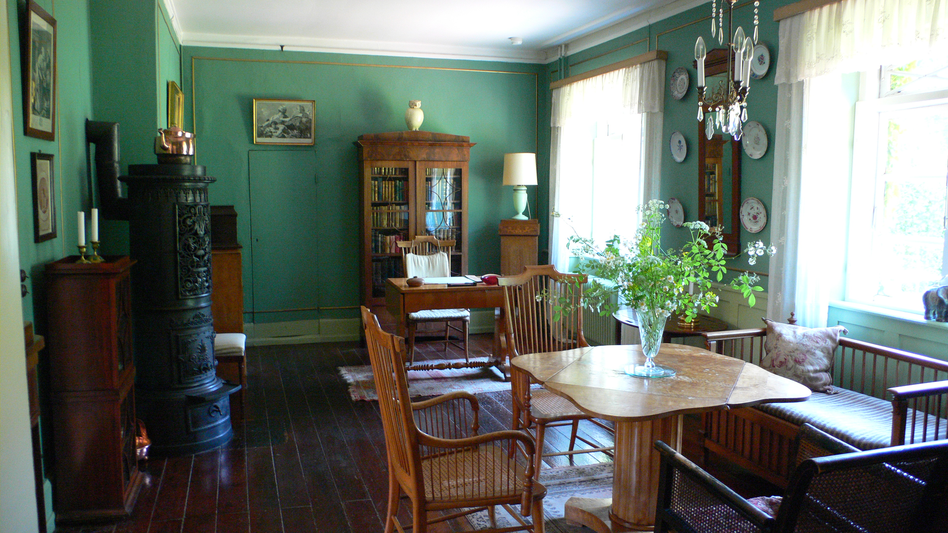 Interoir from the Karen Blixen Museum at Rungstedkund in Rungsted north of Copenhagen, Denmark.